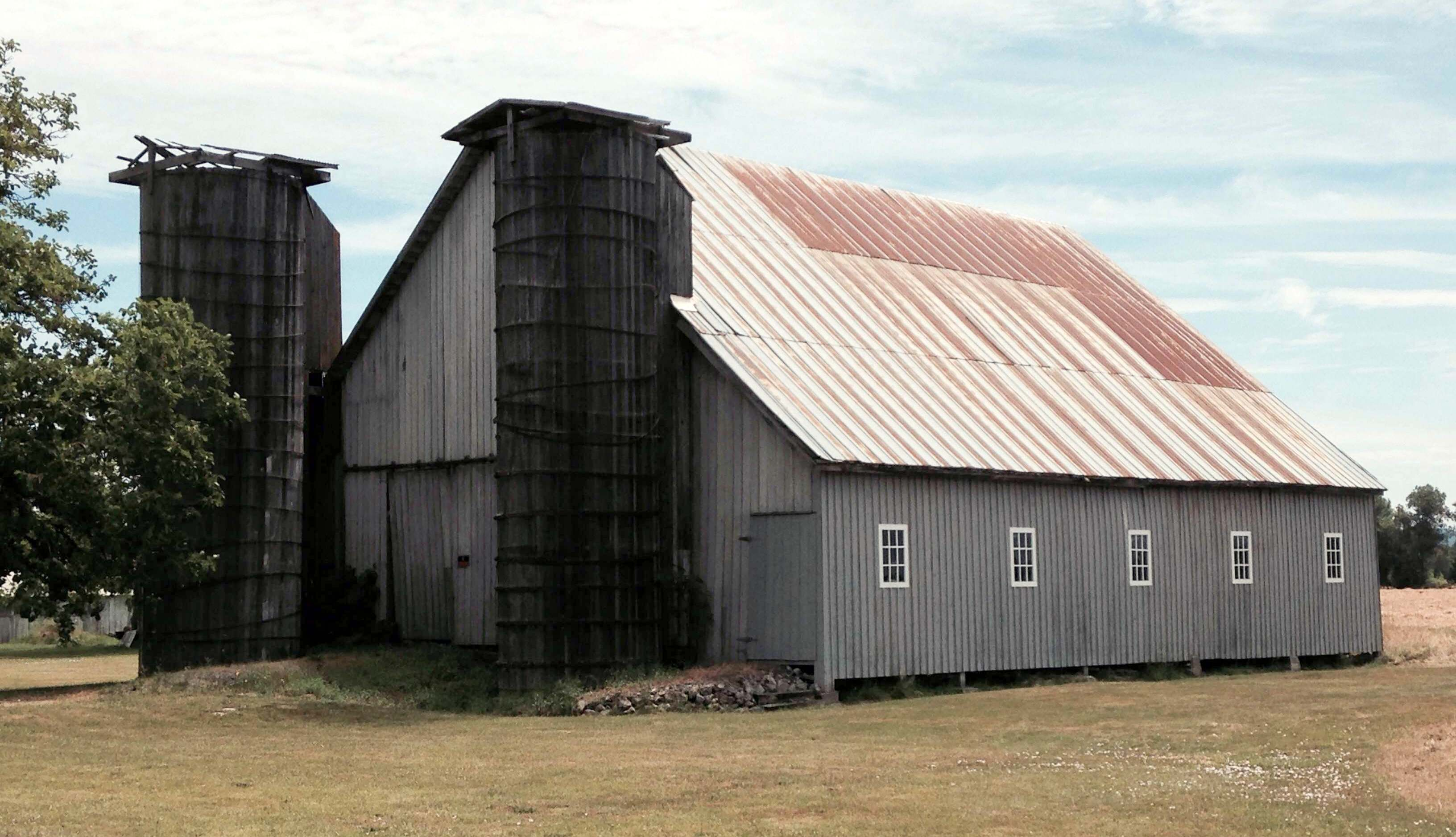 The historic Henry and Mary Cyrus Barn (built ca. 1884), located at 37964 Balm Drive near Lebanon, Oregon, United States, is listed on the US National Register of Historic Places.